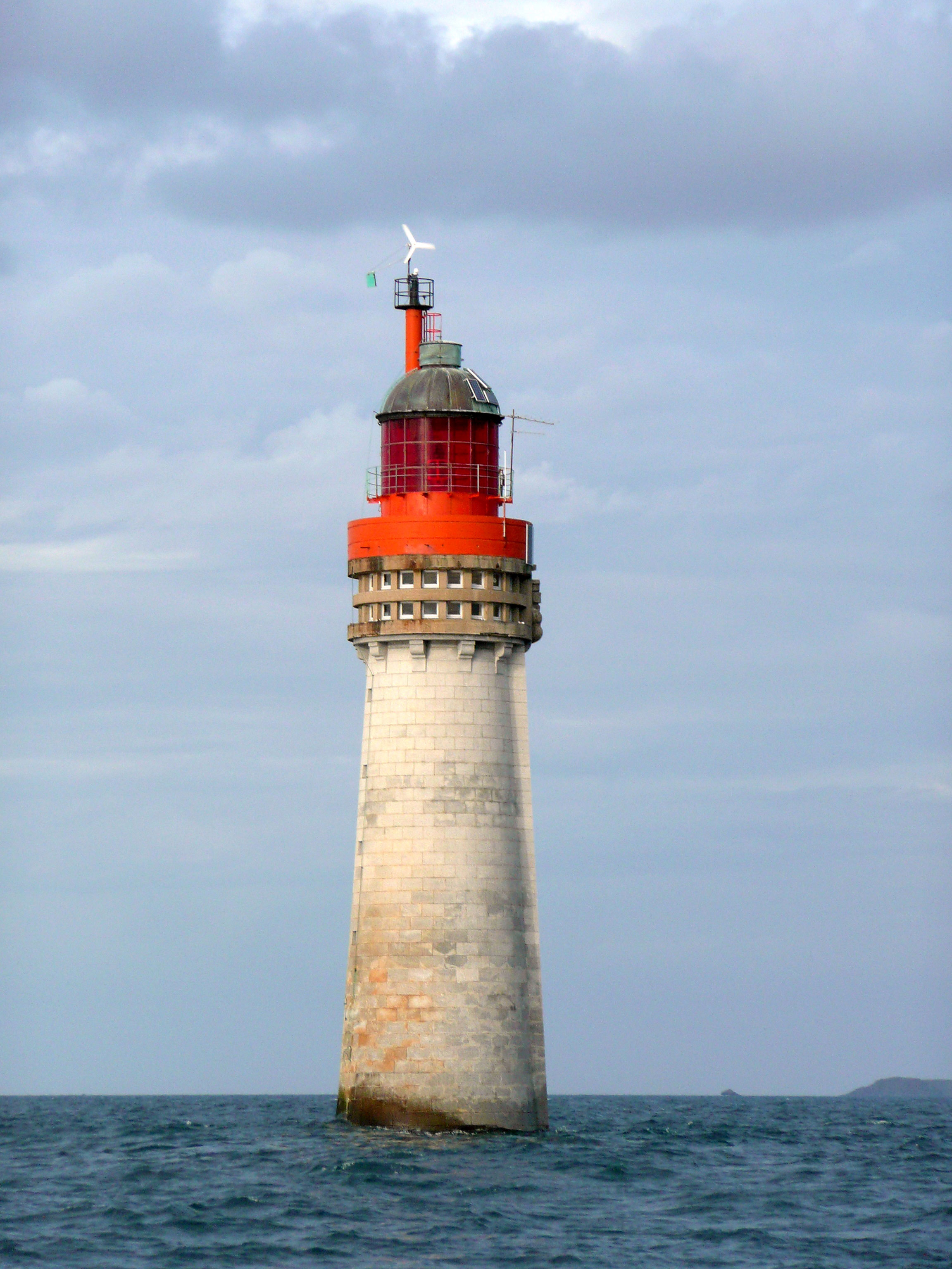 Grand Jardin lighthouse Saint Malo, Brittany, France